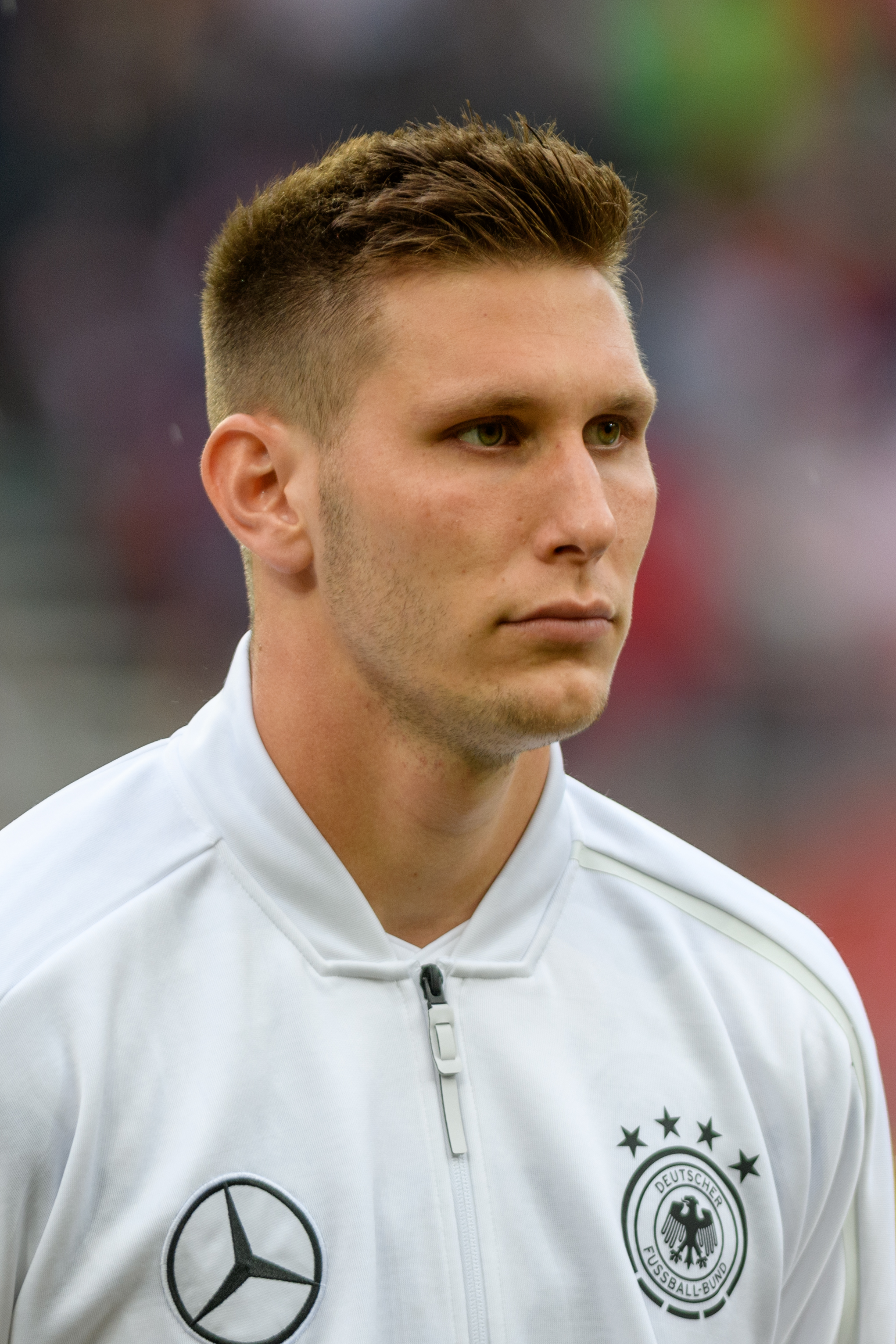 FIFA Friendly Match Austria vs. Germay 2018/06/02 in Klagenfurt/Woerthersee. Picture shows Niklas Süle (GER).